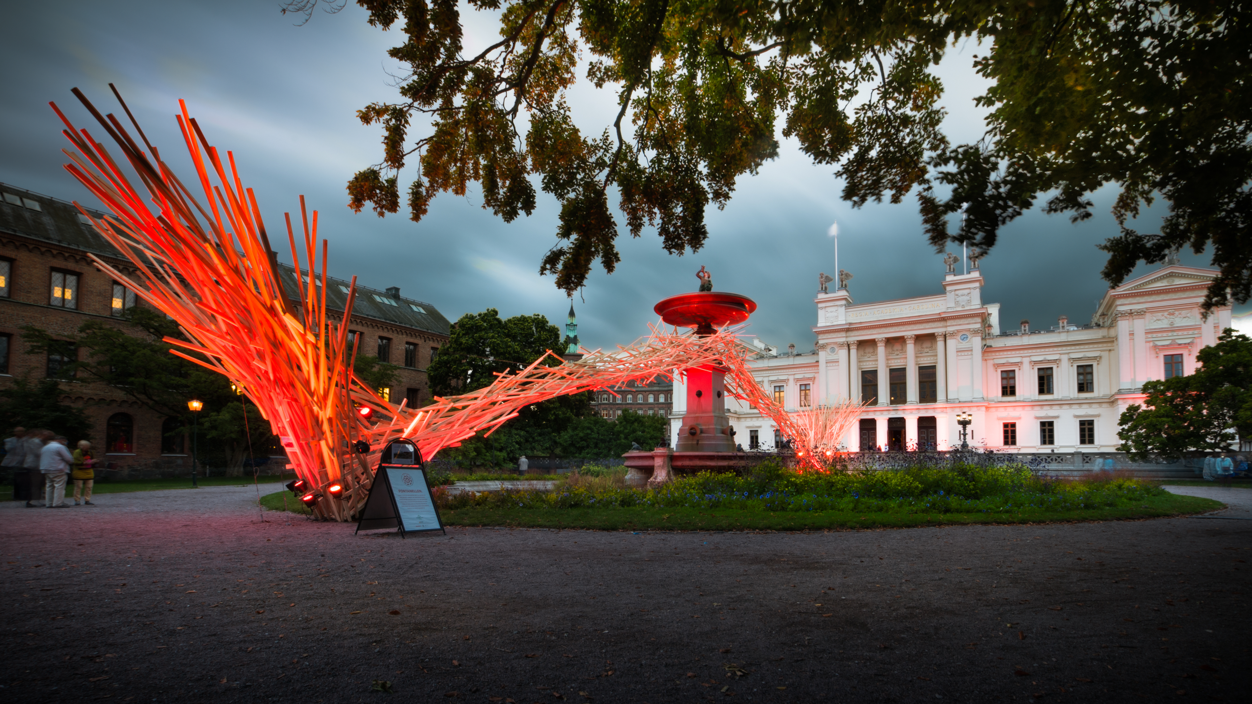 Art construction was built in Sweden to innaugurate the 5th "Innovation in Mind" conference. This unique view was captured during the Cultural Night in Lund September 21, 2013.